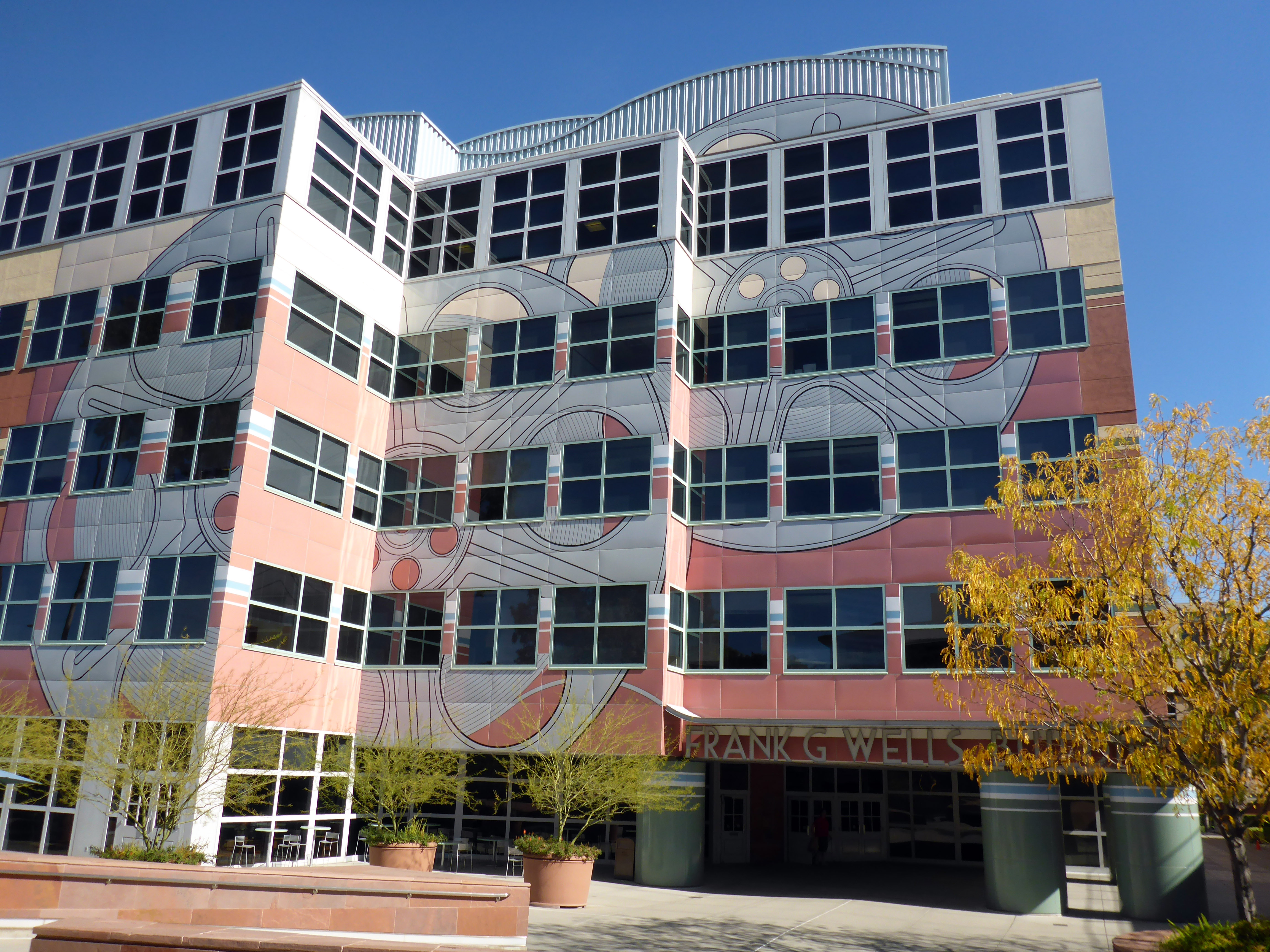 The Frank G. Wells Building at the Walt Disney Studios in Burbank, California. Photographed by user Coolcaesar on November 8, 2014.